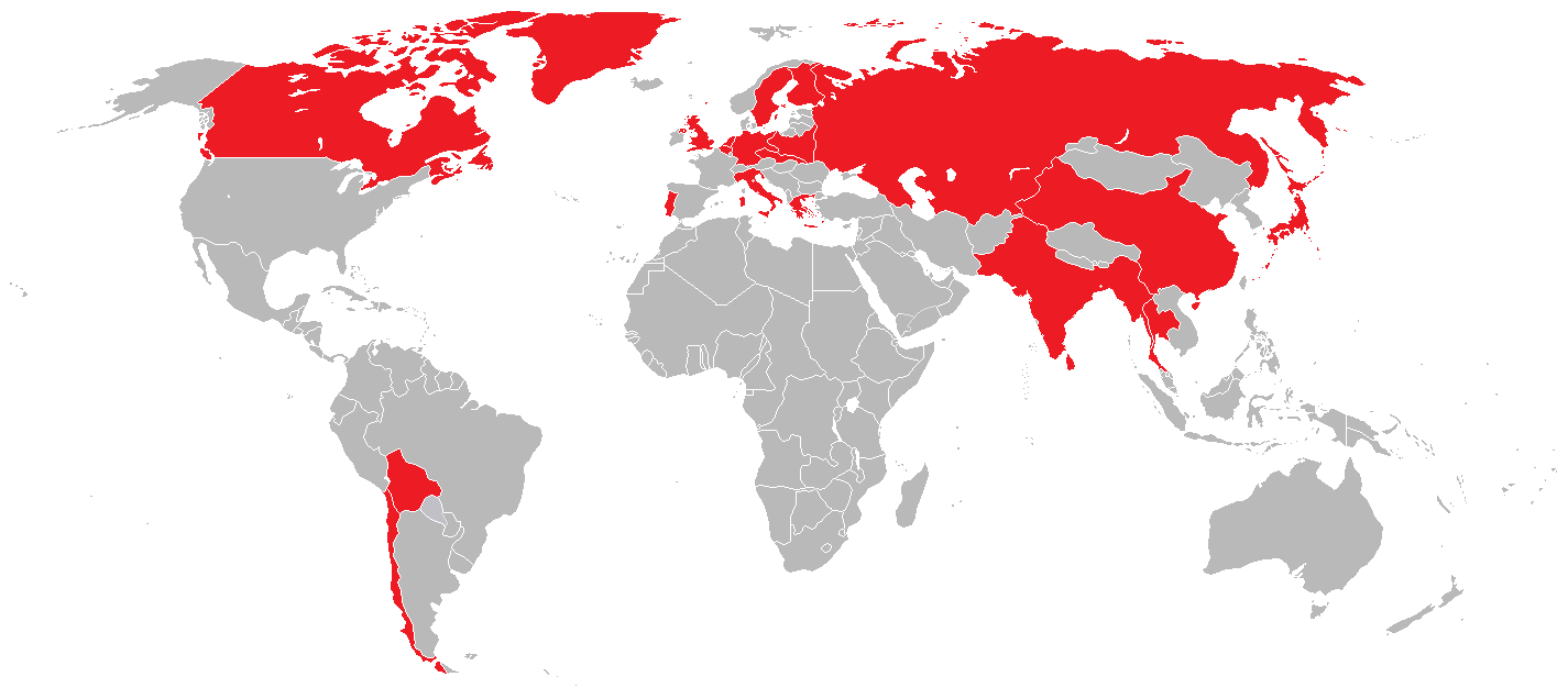 Map of former operators of the Carden Loyd tankette.